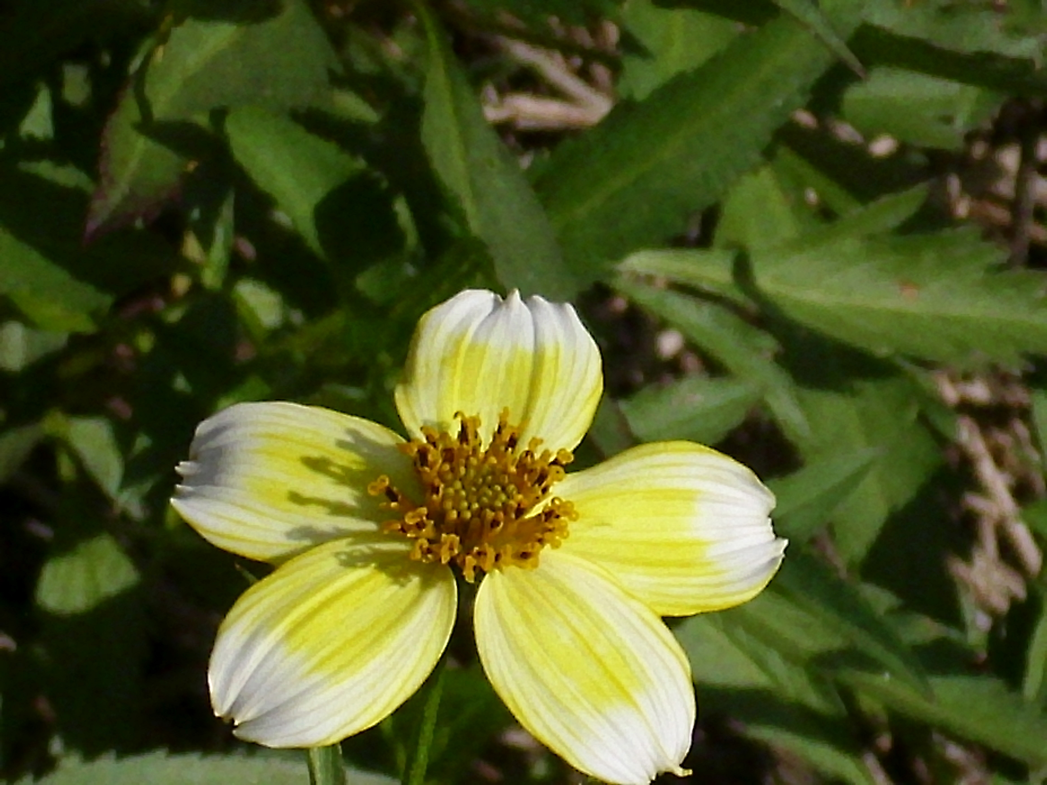 Bidens aurea inflorescence close up, invasive species in El Tamaral, Sierra Madrona, Spain